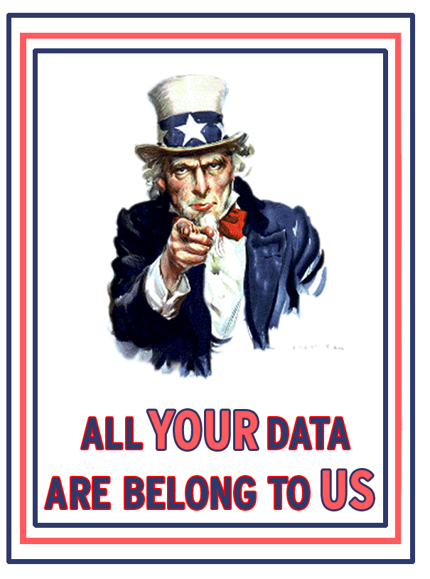 A play on the "All your base are belong to us" meme. U.S. customs officials have the authority to scrutinize the contents of travelers' laptops and even confiscate laptops for a period of time, without giving a reason.